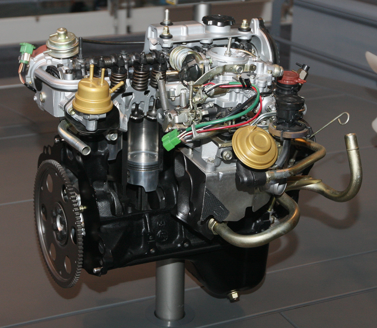 1979 Toyota 3A-U Type engine. L4 1,452cc.